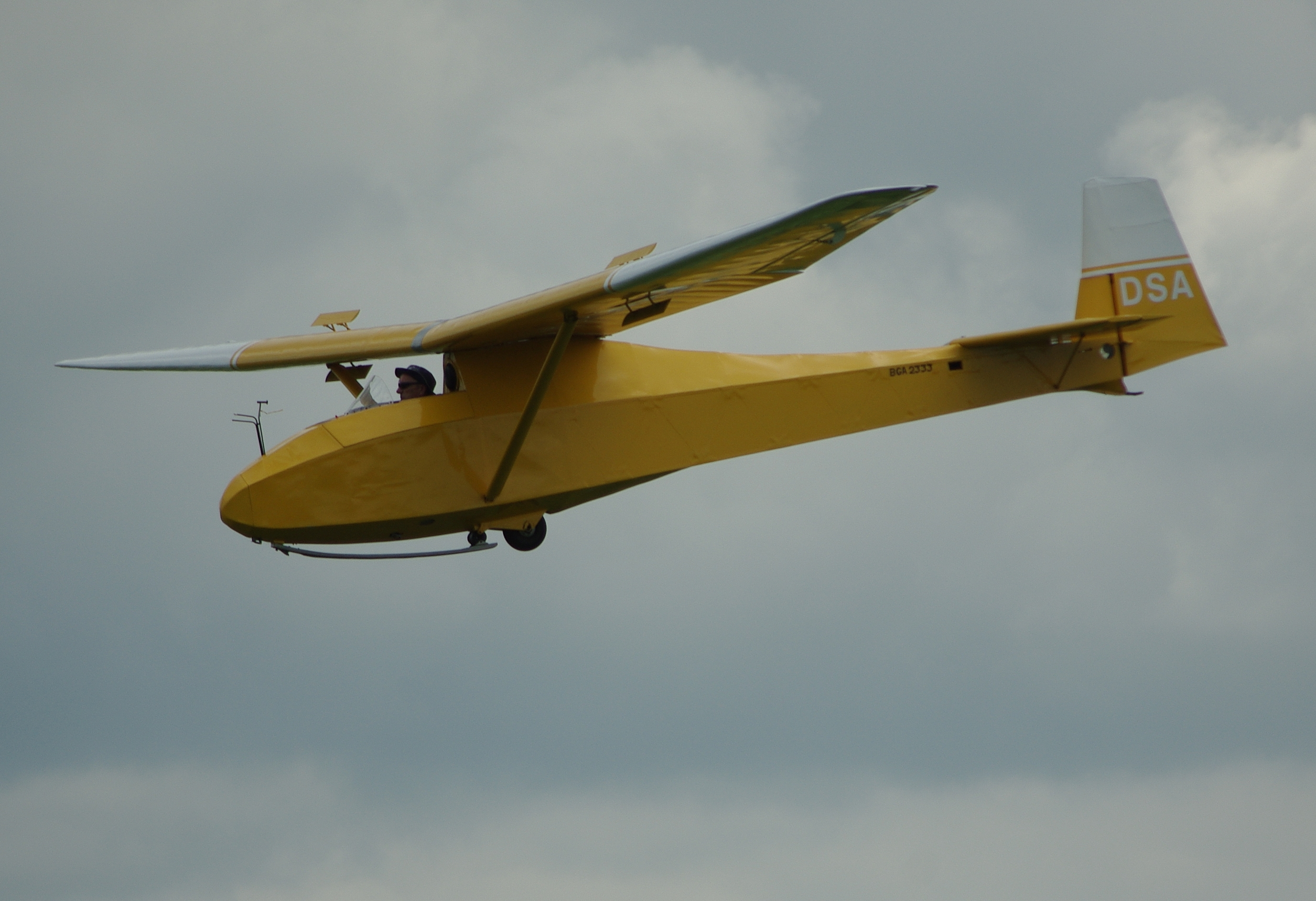 T.30B Prefect BGA2333 at the Camphill Veterans' Rally in June 2013.